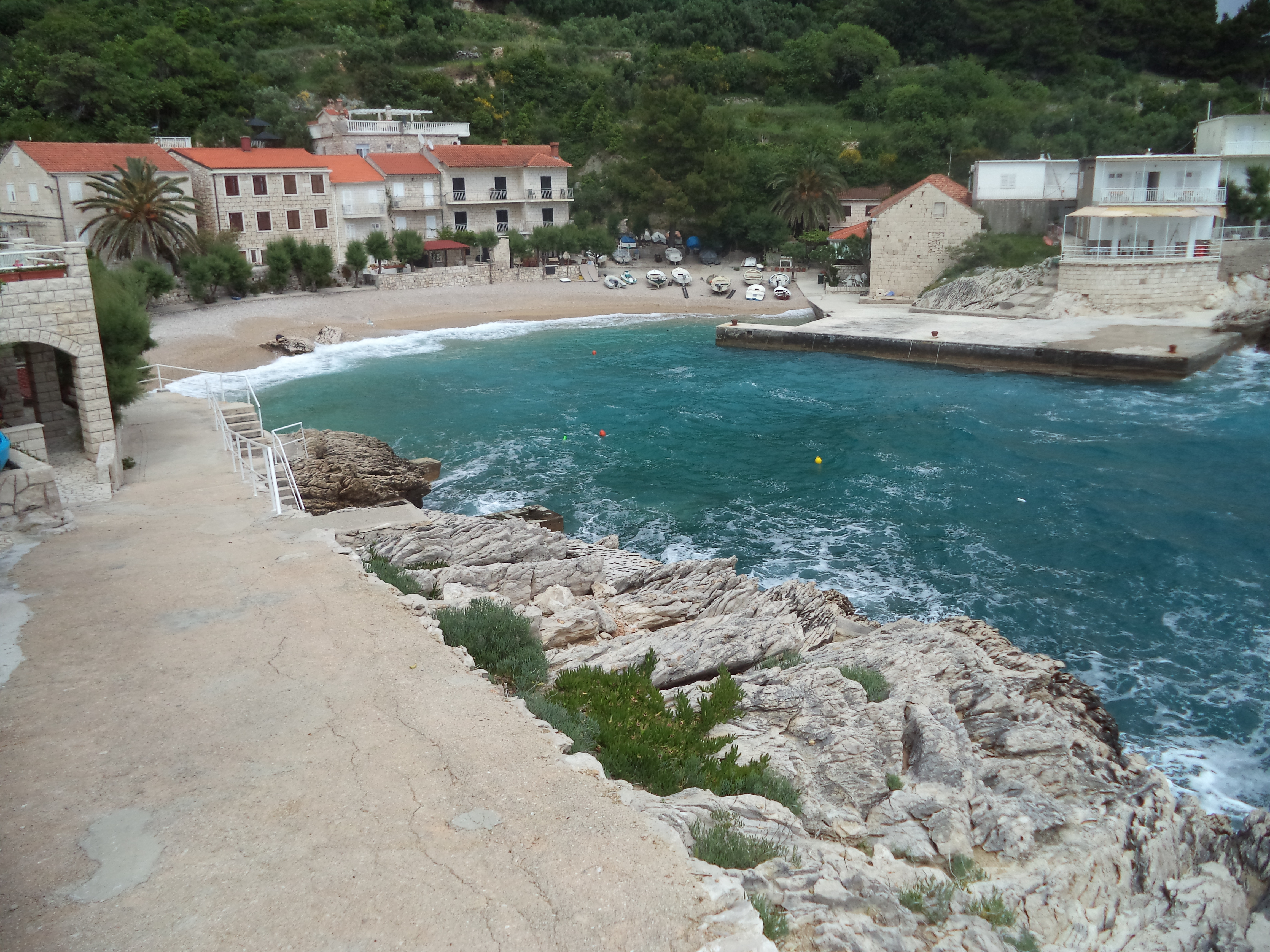 Podobuče